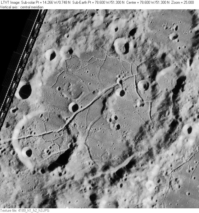 Moon crater Repsold. Detail from Lunar Orbiter IV-189H. High resolution scans from the USGS Lunar Orbiter Digitization Project remapped to a north-up aerial view by LTVT.